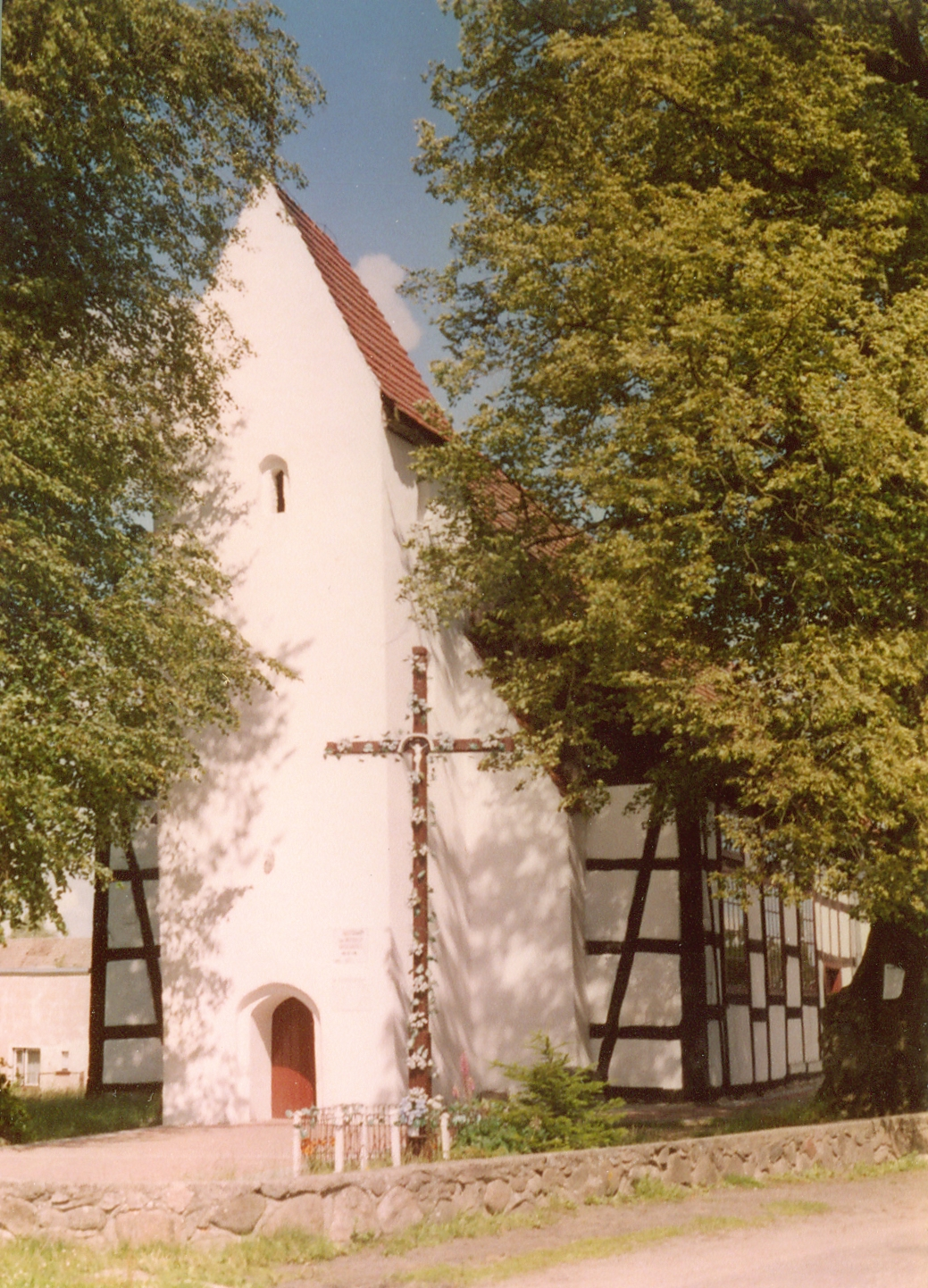 Saint Michael Archangel church in Staniewice